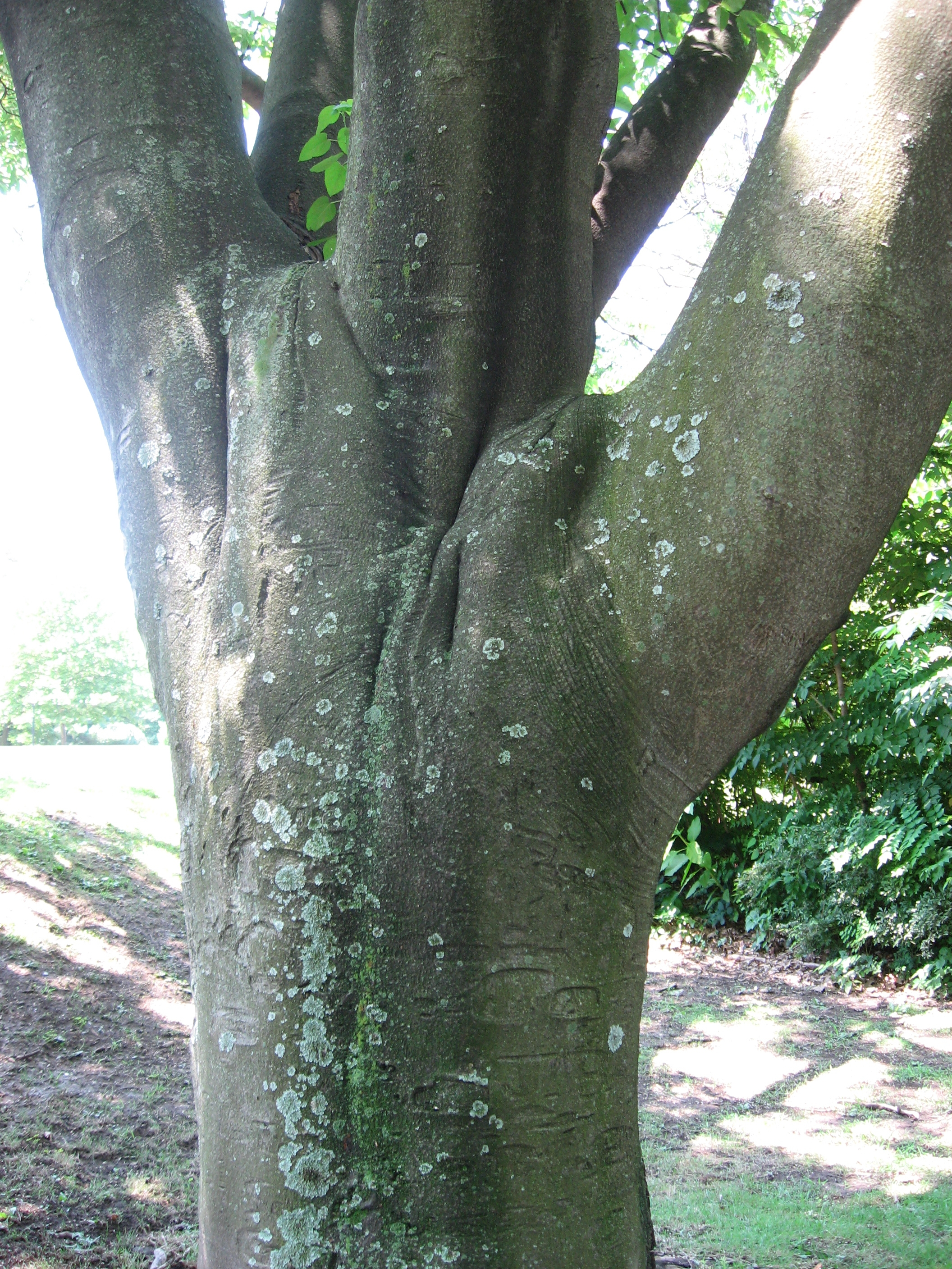 A picture of the trunk of Tetradium daniellii.